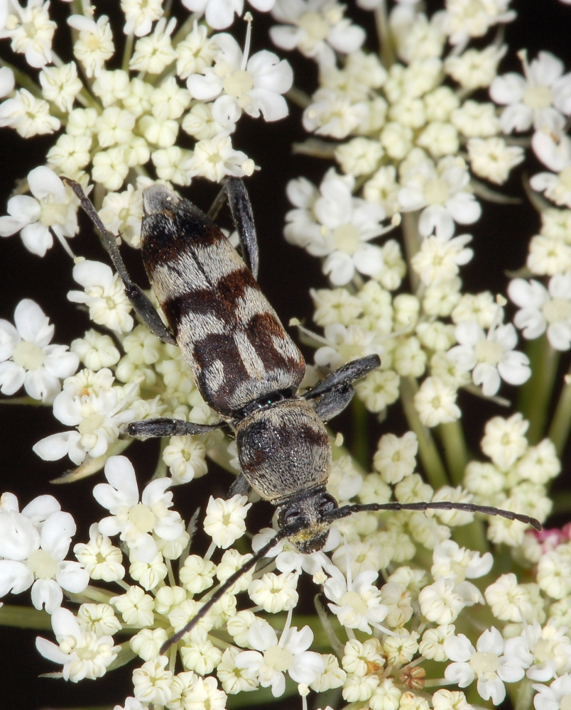 Chlorophorus varius det. Siga, Valle Maggia, Ticina, Switzerland